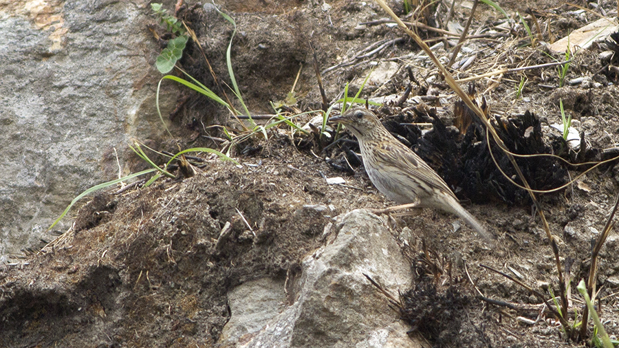 The species Upland Pipit had been photographed from Pangot in Uttarakhand, India on 28.05.2016.